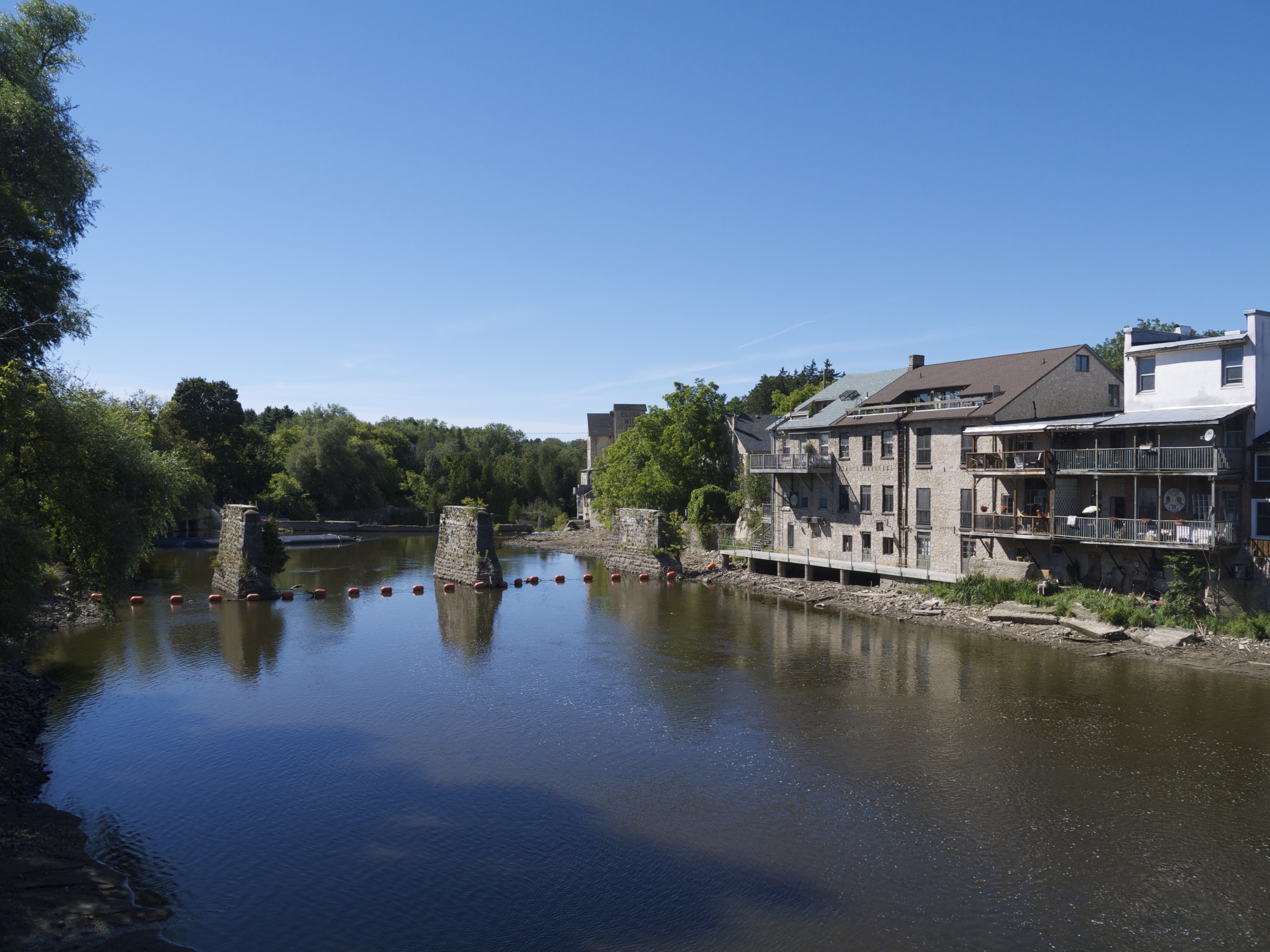 Elora, Ontario.